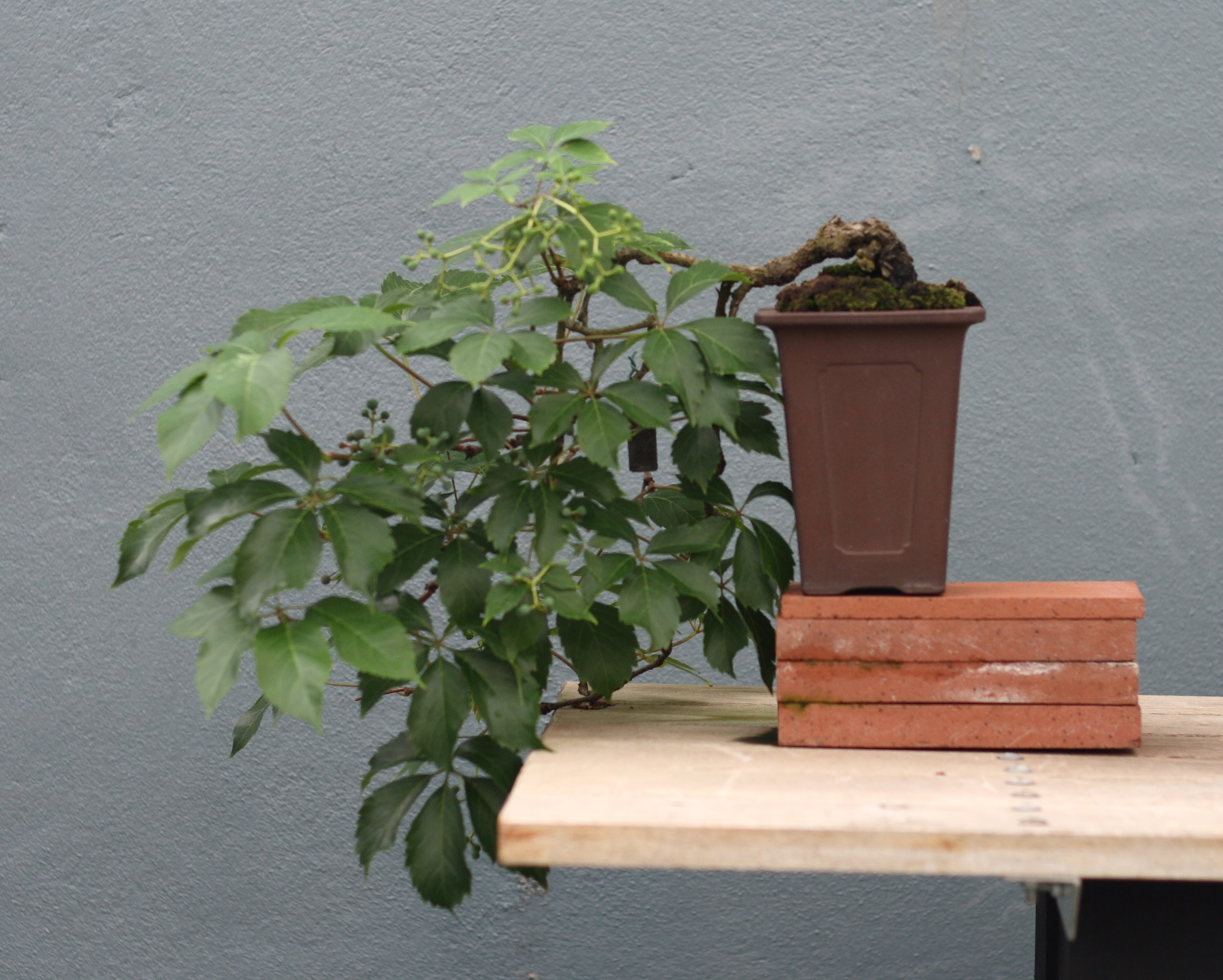 A Virginia Creeper (Parthenocissus quinquefolia) bonsai, in the "cascade" style, on display at the Brooklyn Botanic Garden